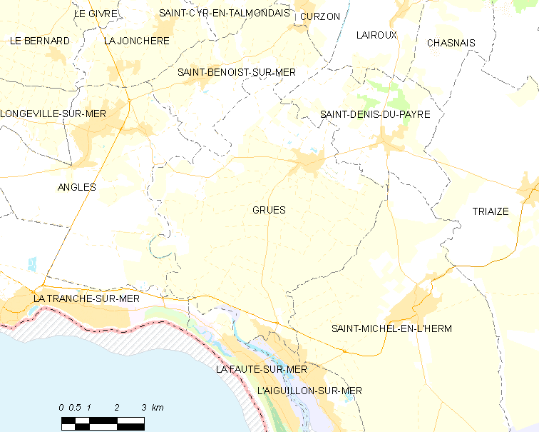 Map of French municipality Grues